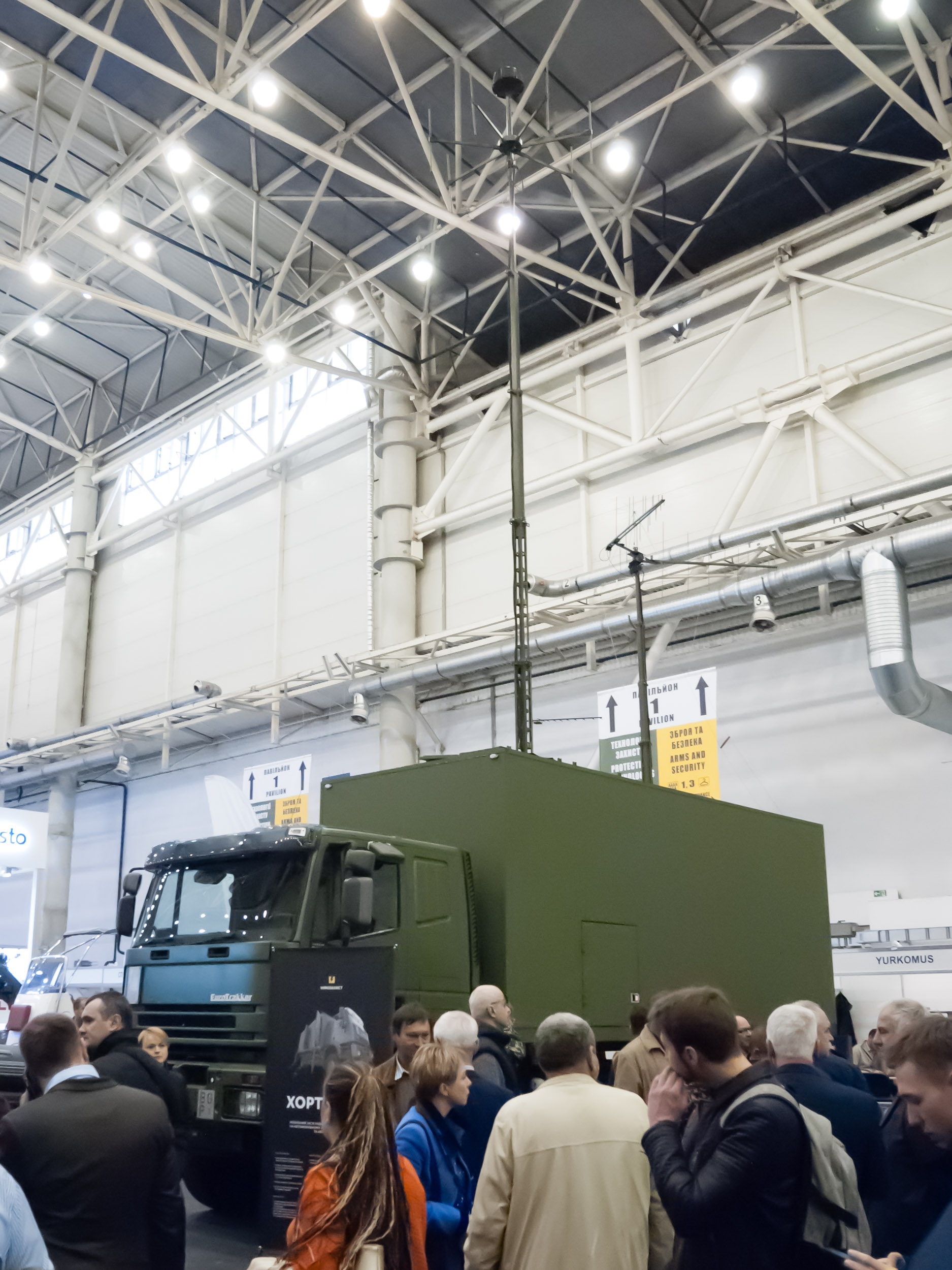 Khortytsia-M electronic warfare complex by Infozahyst (Ukraine), 'Zbroya ta Bezpeka' military fair, Kyiv, Ukraine, 2017